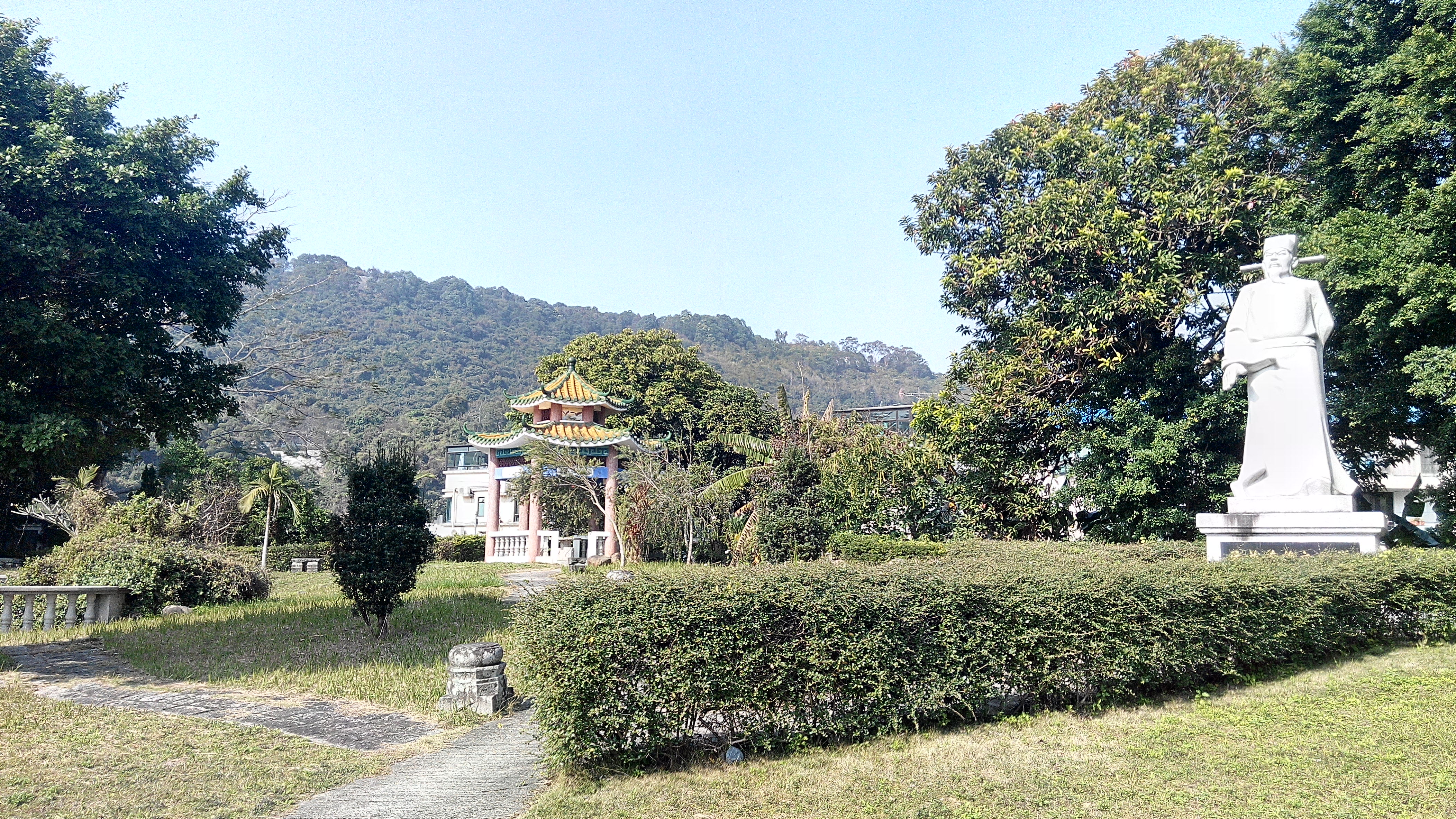 The Man Shan Park was built to commemorate Man Tin-cheung, next to the Man Ancestral Hall, in Tai Hang (Tai Po)